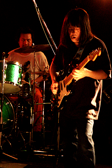 Tabata Mitsuru